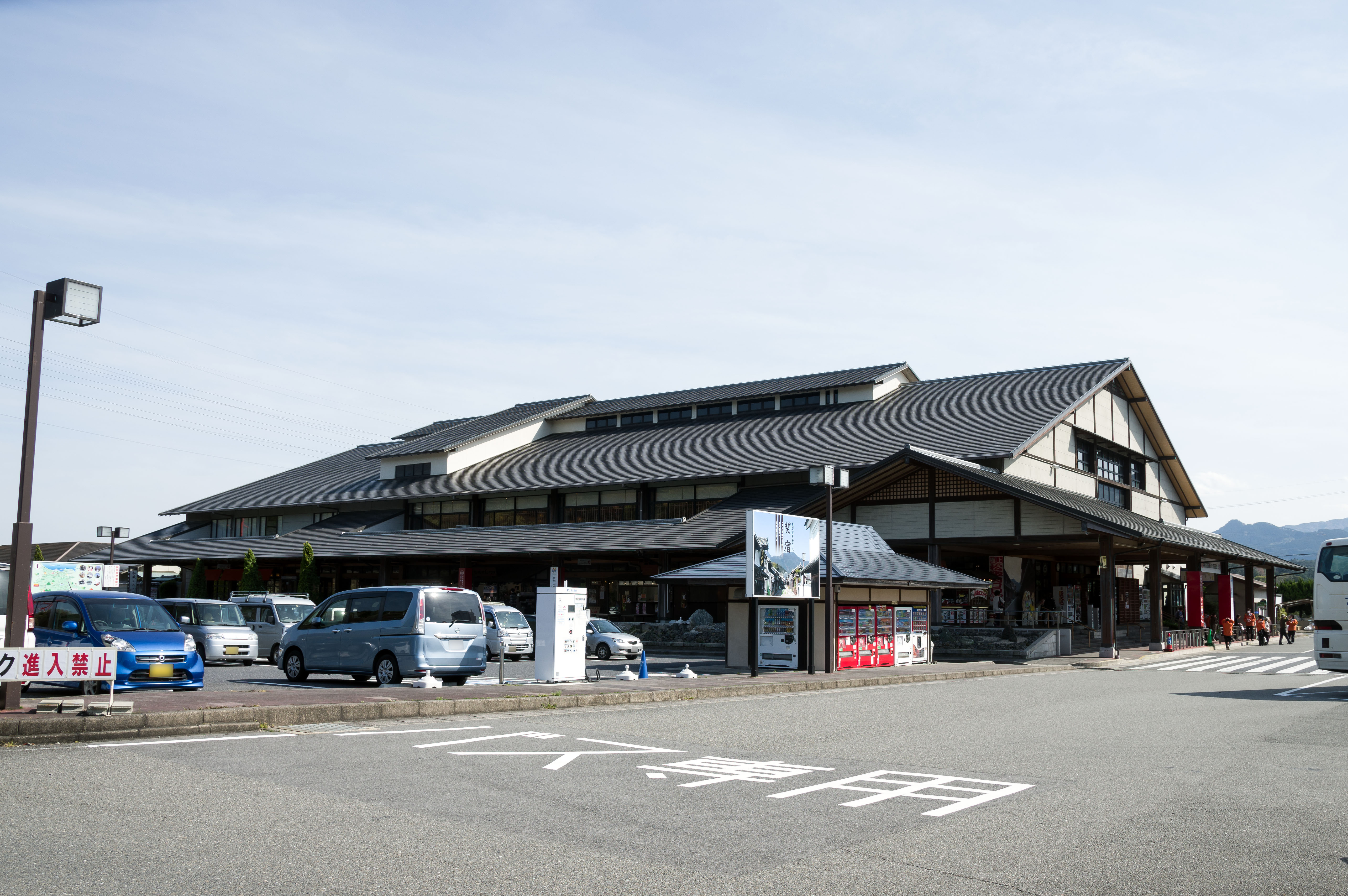 Meihan Seki Rest Area in Kameyama, Mie, Japan.